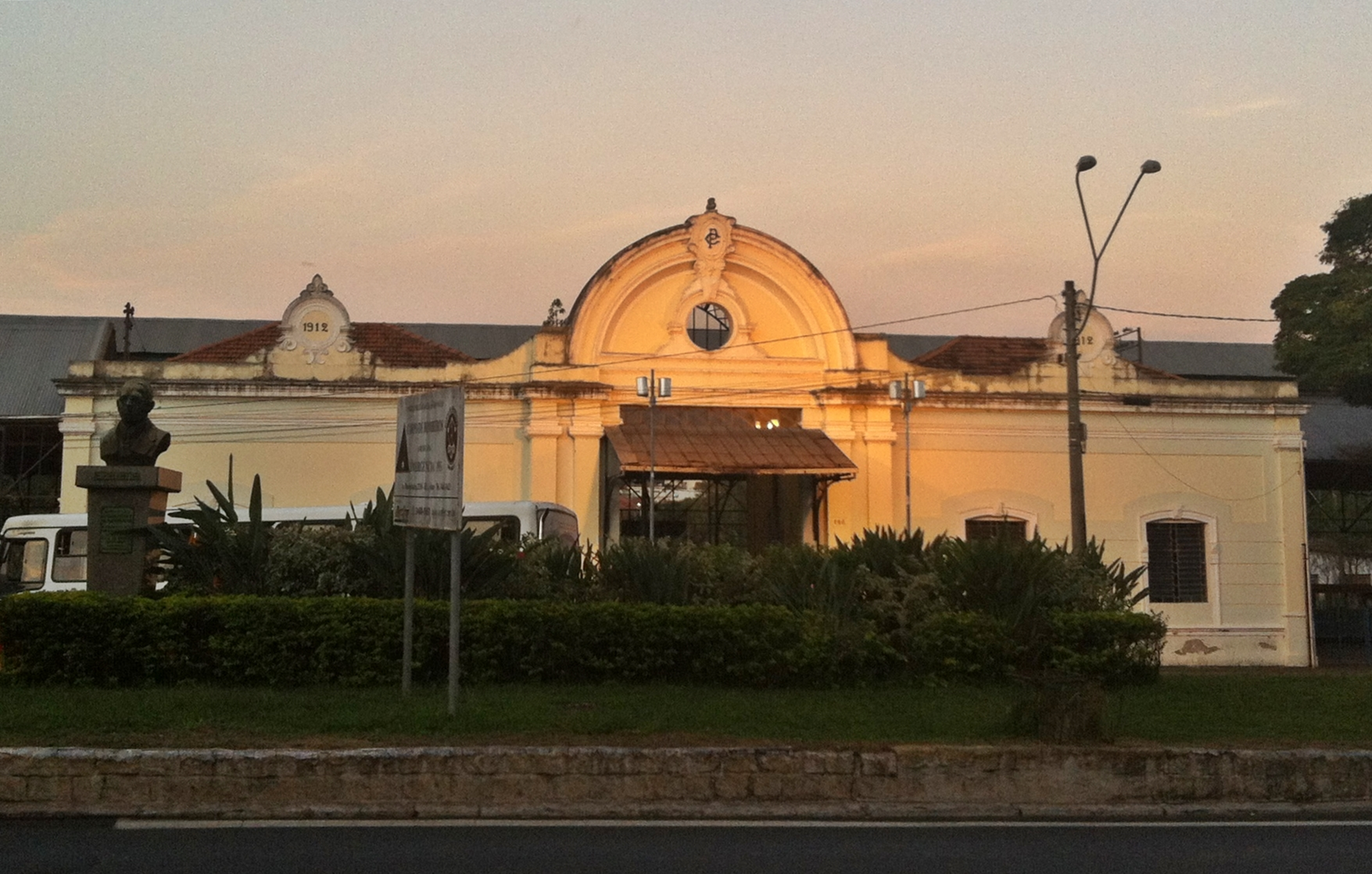 Americana - SP, Jun2012